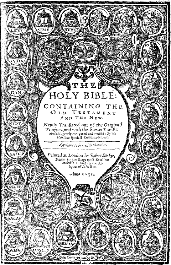 Title page of Barker and Lucas's 1631 Holy Bible, known as the "Wicked Bible". This image is not copyrighted due to the age of the work.